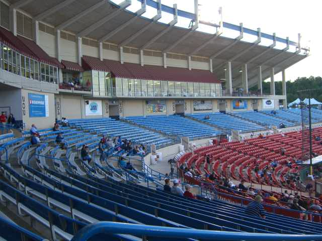 Regions Park, formerly known as Hoover Metropolitan Stadium